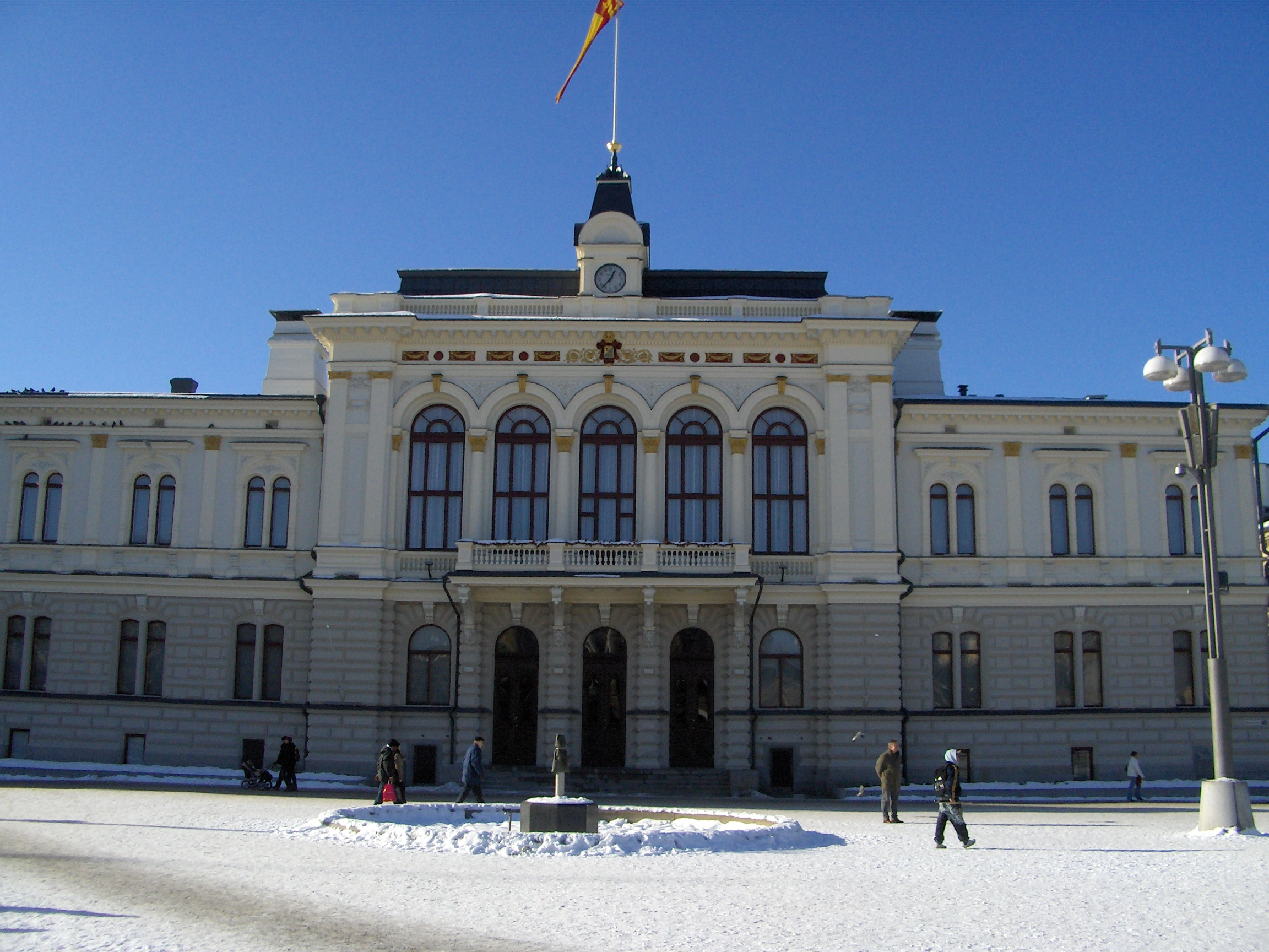 The townhall of Tampere